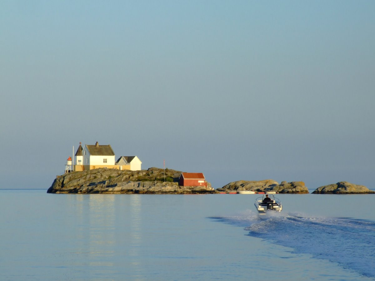 Salthomen Fyr located in the outer Lillesandfjord, Norway.